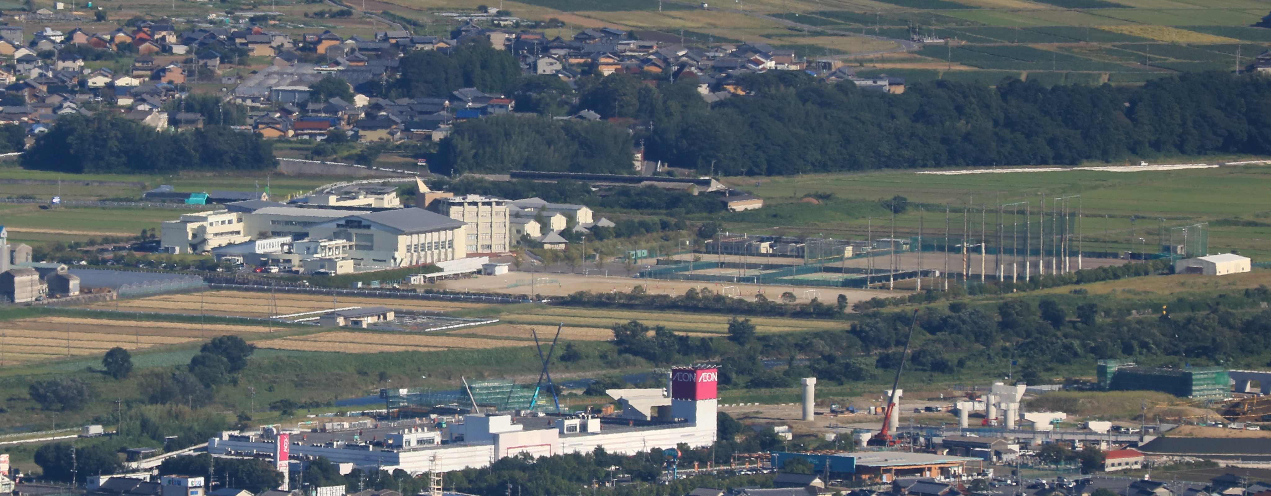 Green Plaza Daian (AEON Daian) and Inabe Sogogakuen High school seen from Mount Fujiwara (Suzuka Mountains) in Inabe, Mie Prefecture, Japan.